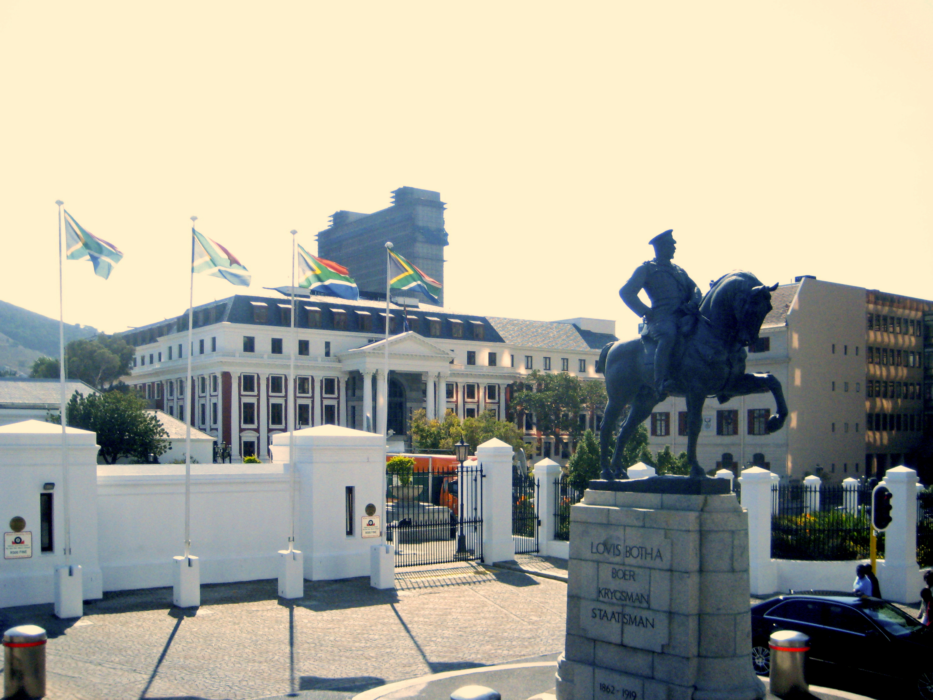 South-African Parliament bldg with Louis Botha statue, Cape Town